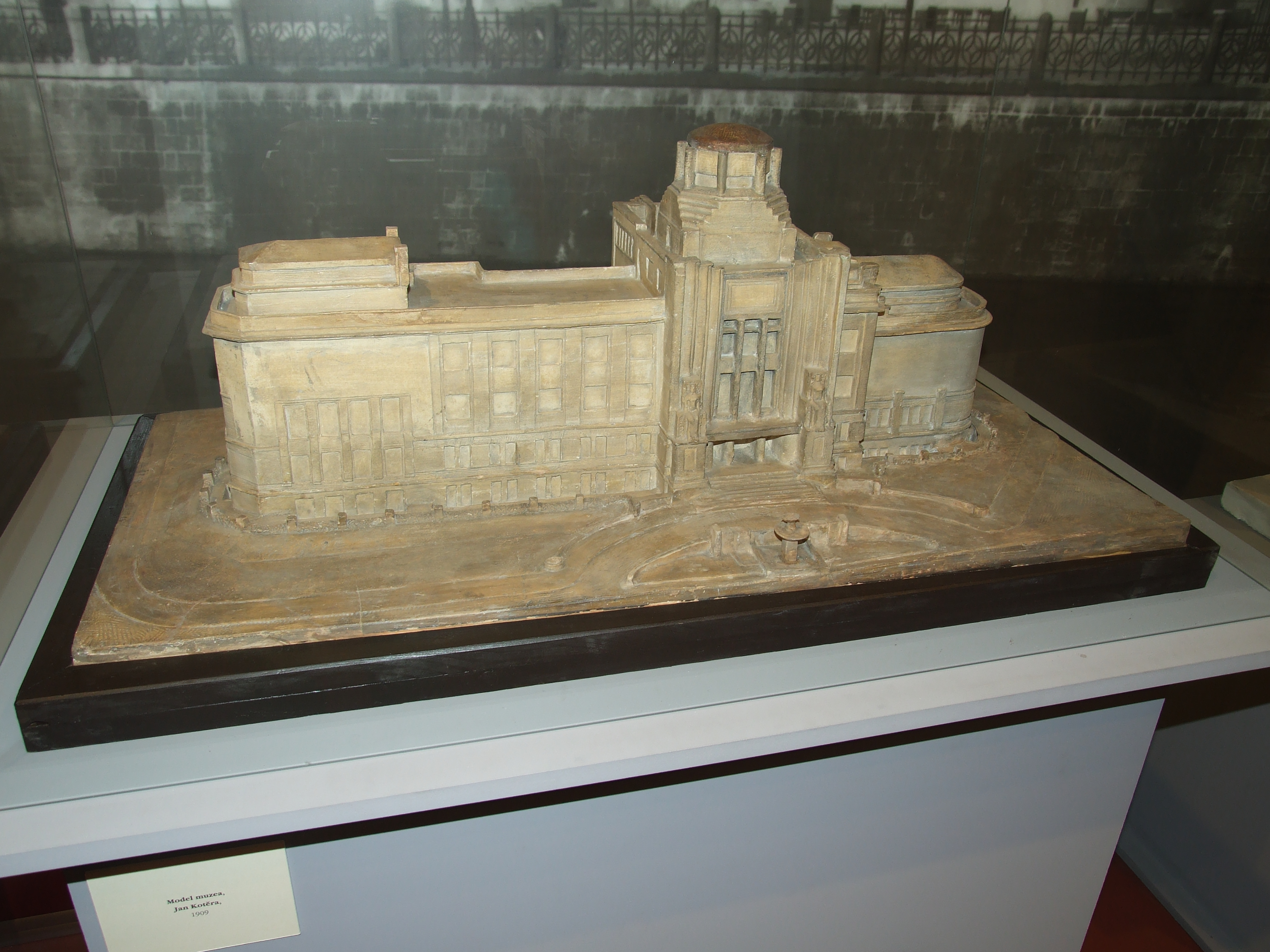 Exhibition item, Museum of Eastern Bohemia in Hradec Králové, Czech Republic